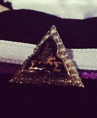 This is the badge of Tri Sigma Sorority taken by me.